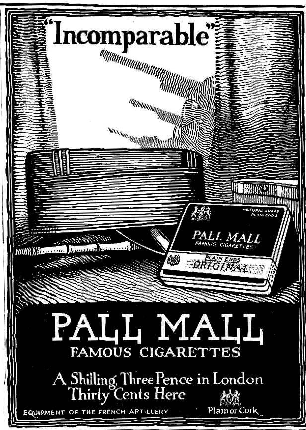 Pall Mall cigarette ad from the 18 Aug. 1918 New York Tribune.